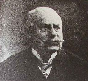 Jiří Chocholouš – chess player and composer